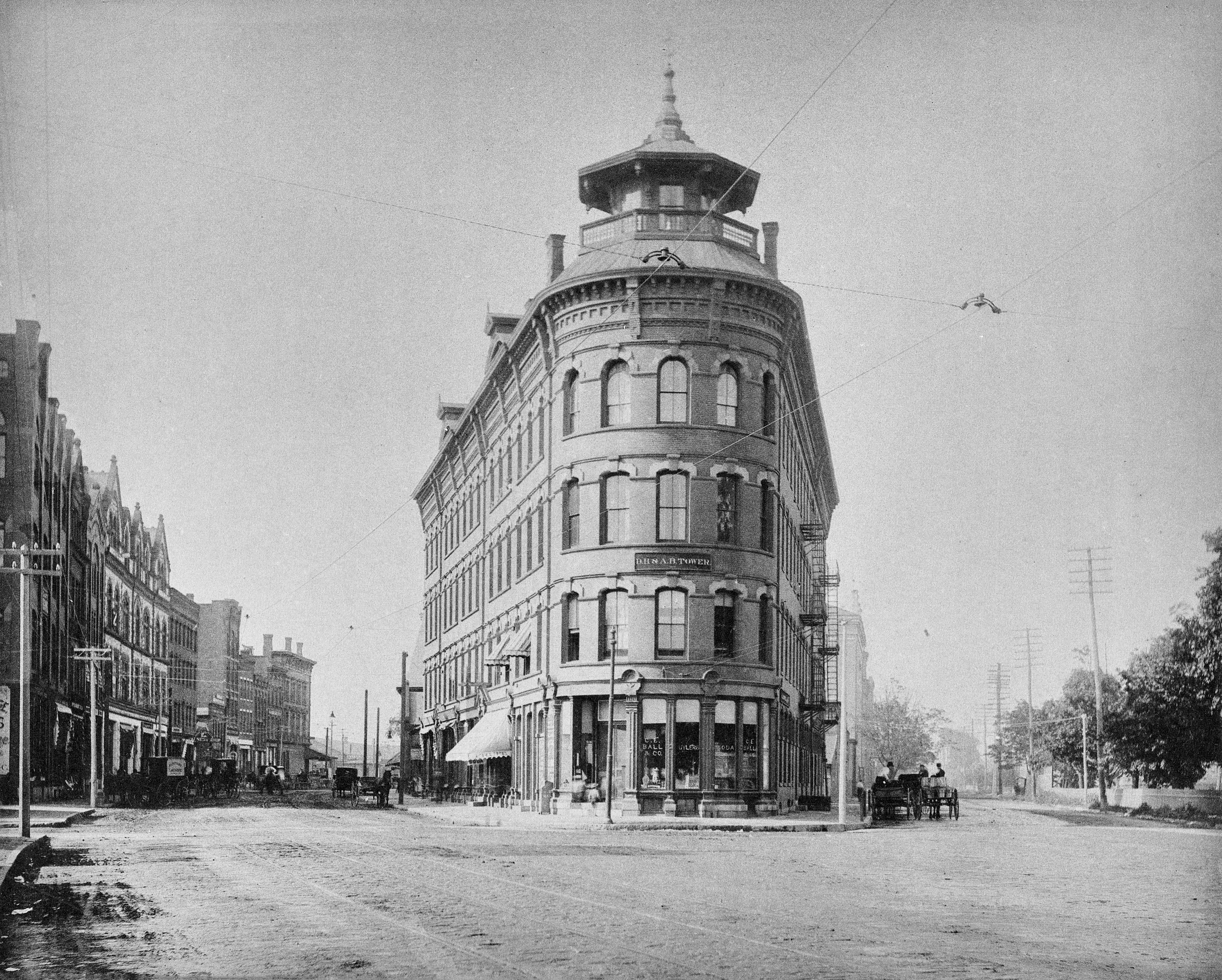 The Flatiron Building of Holyoke, Massachusetts at the corner of Race and Main St. Otherwise known as the Parsons' Paper Company Block. Between the windows of the second and third floors can be seen the sign of architects D.H. & A.B. Tower, whose offices resided there. The building would later be known as the American Writing Paper Company Block, as the paper trust's headquarters resided there, and other floors were at one time used by Cercle Rochambeau, a French-Canadian Holyokais dramatic troupe.